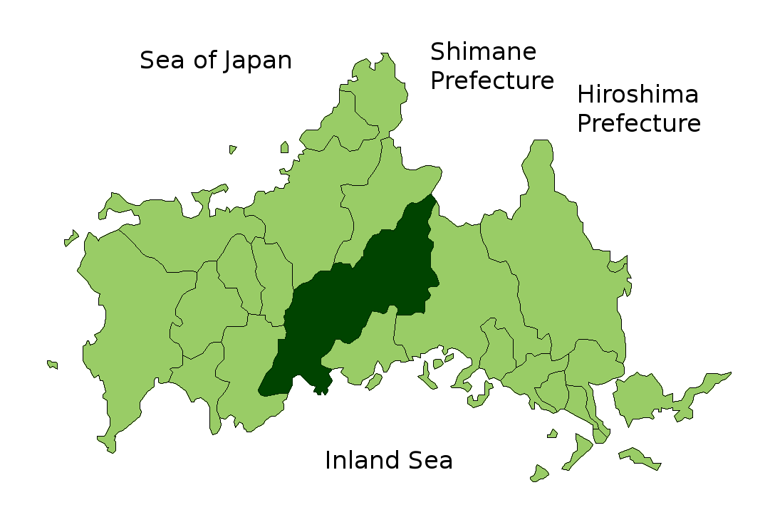 Map of Yamaguchi Prefecture highlighting Yamaguchi city. Borders of map as of July, 2006. (blank map used from [1]) See also Image:YamaguchiMapCurrent.png.